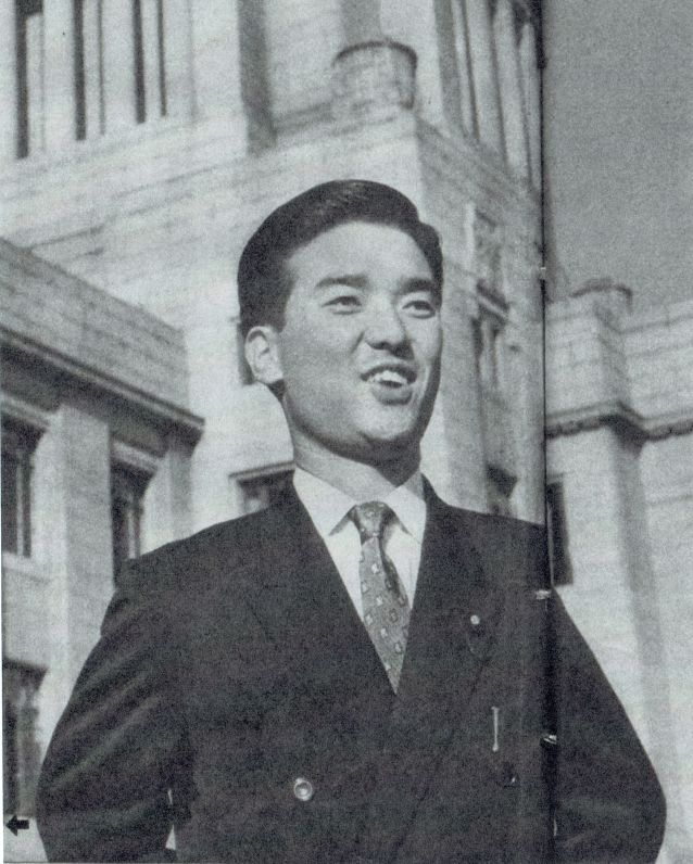 Tosihki Kaifu 1960